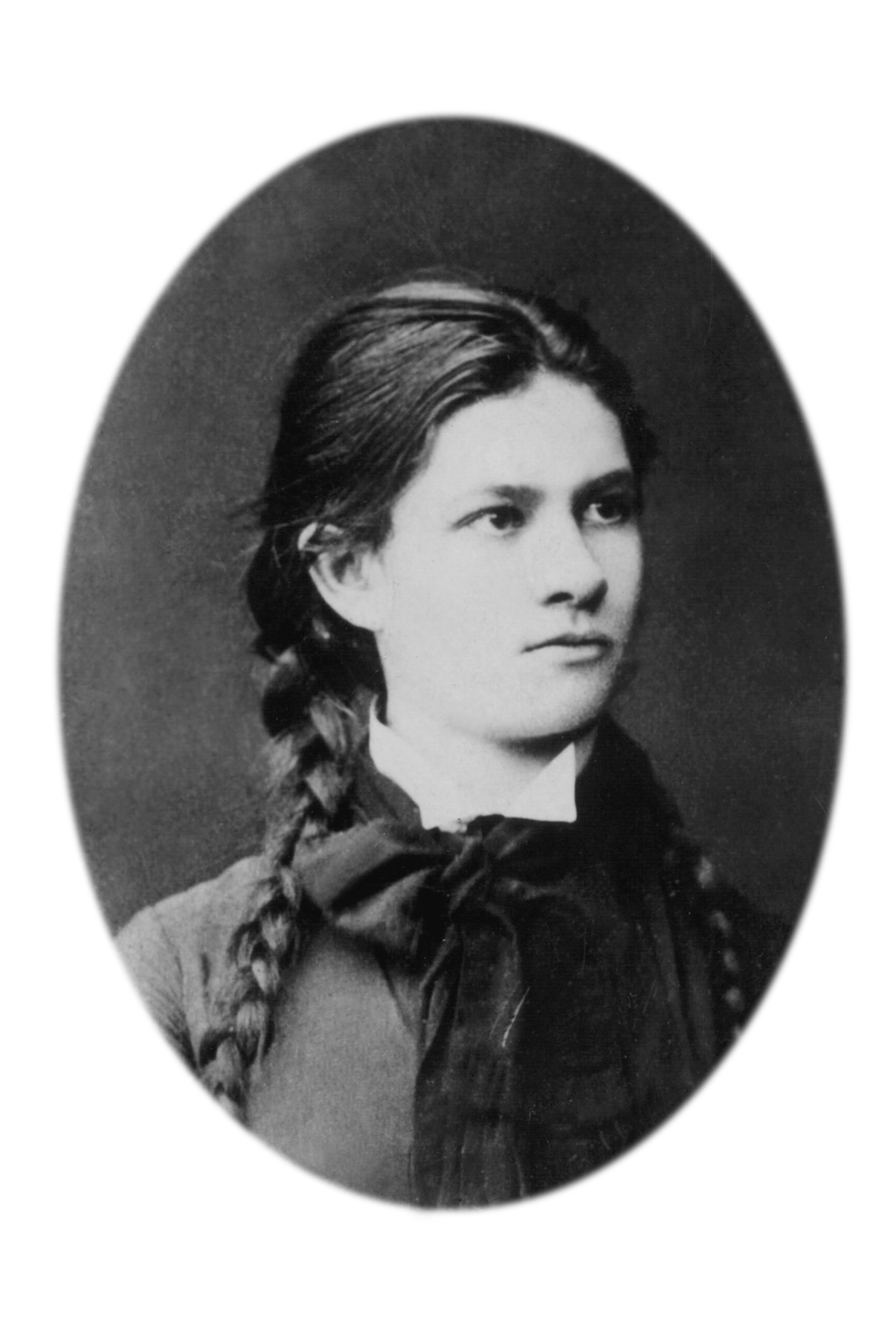 Sofia Bogomolets (1856-1892), the mother of academician A. A. Bogomolets